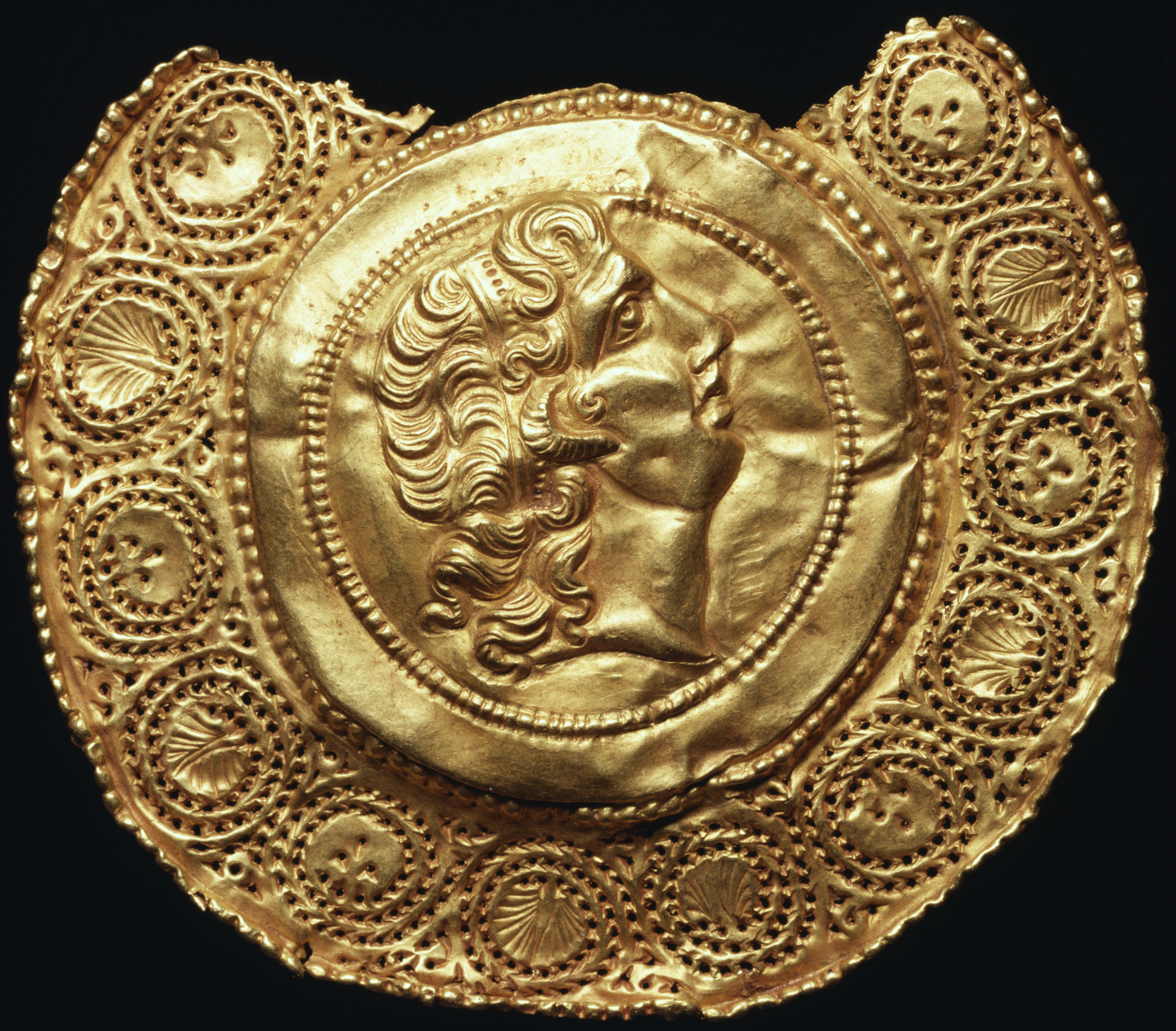 This pendant is decorated with repoussé and with a beaded moulding border.